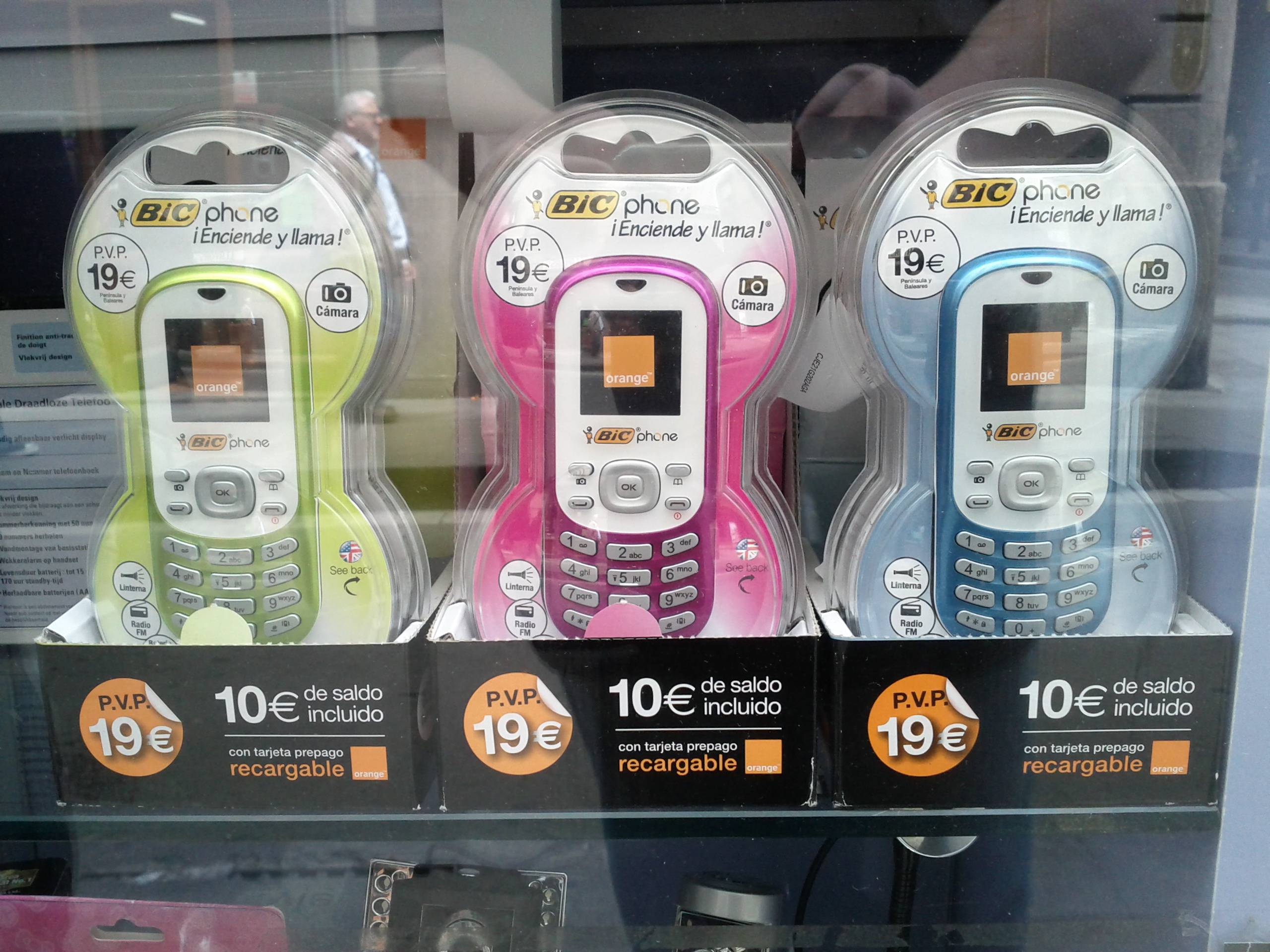 Bic cell phones, only 20€! Should I get one?